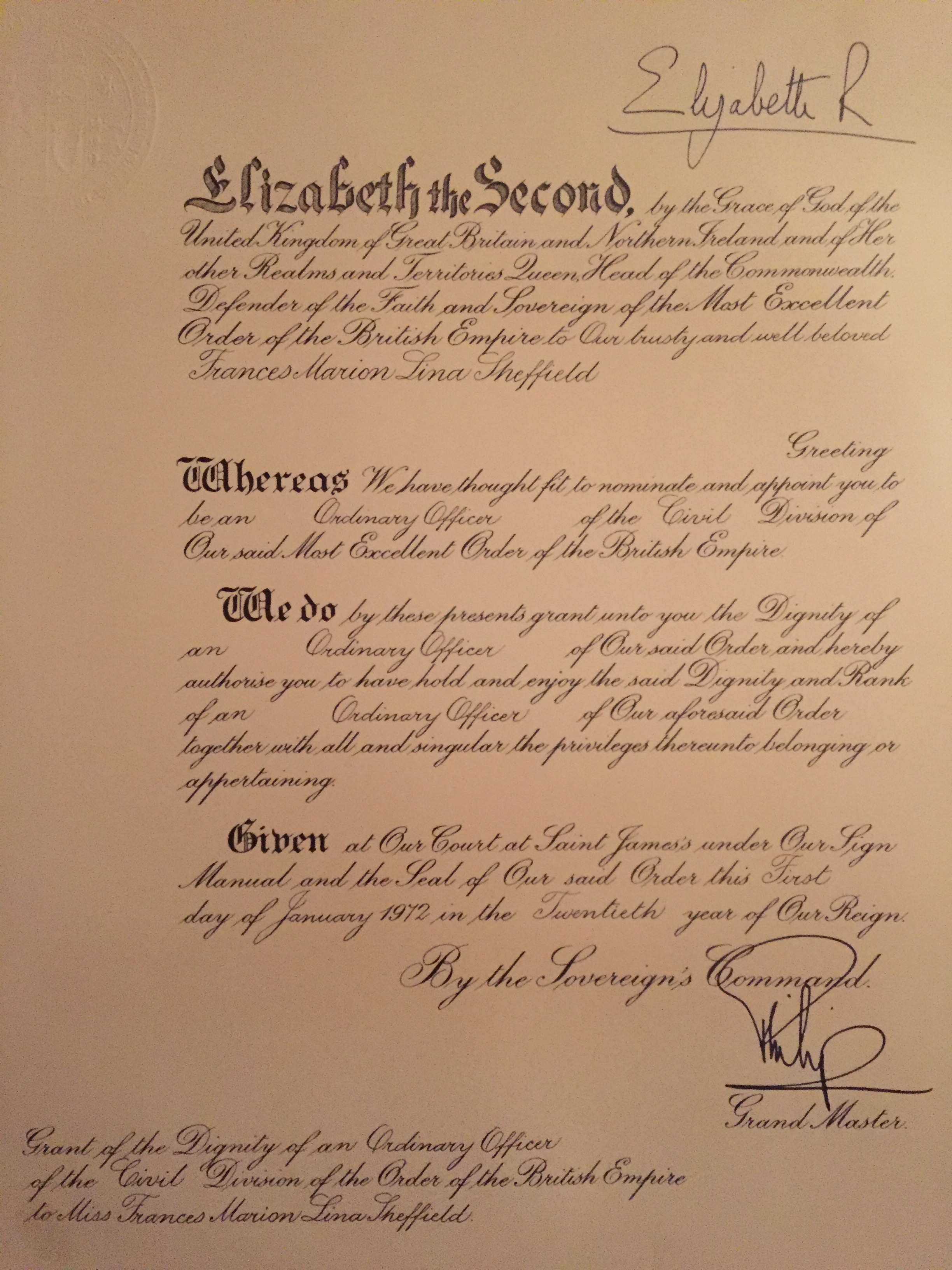 Photograph of Dr Sheffield's OBE certificate